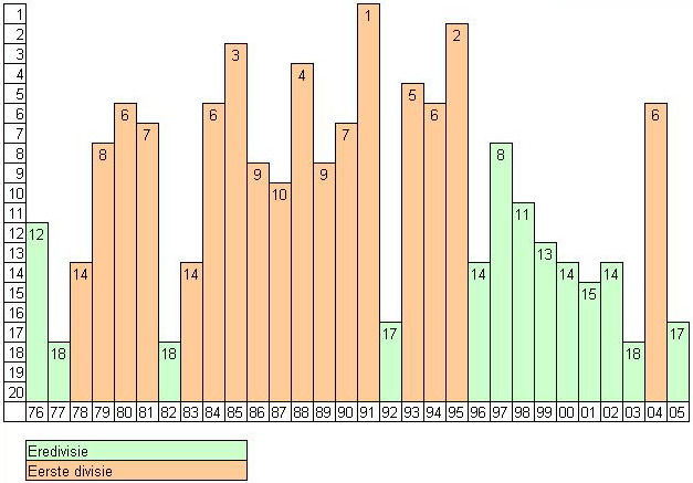 Dutch league positions of Graafschap, last 30 seasons